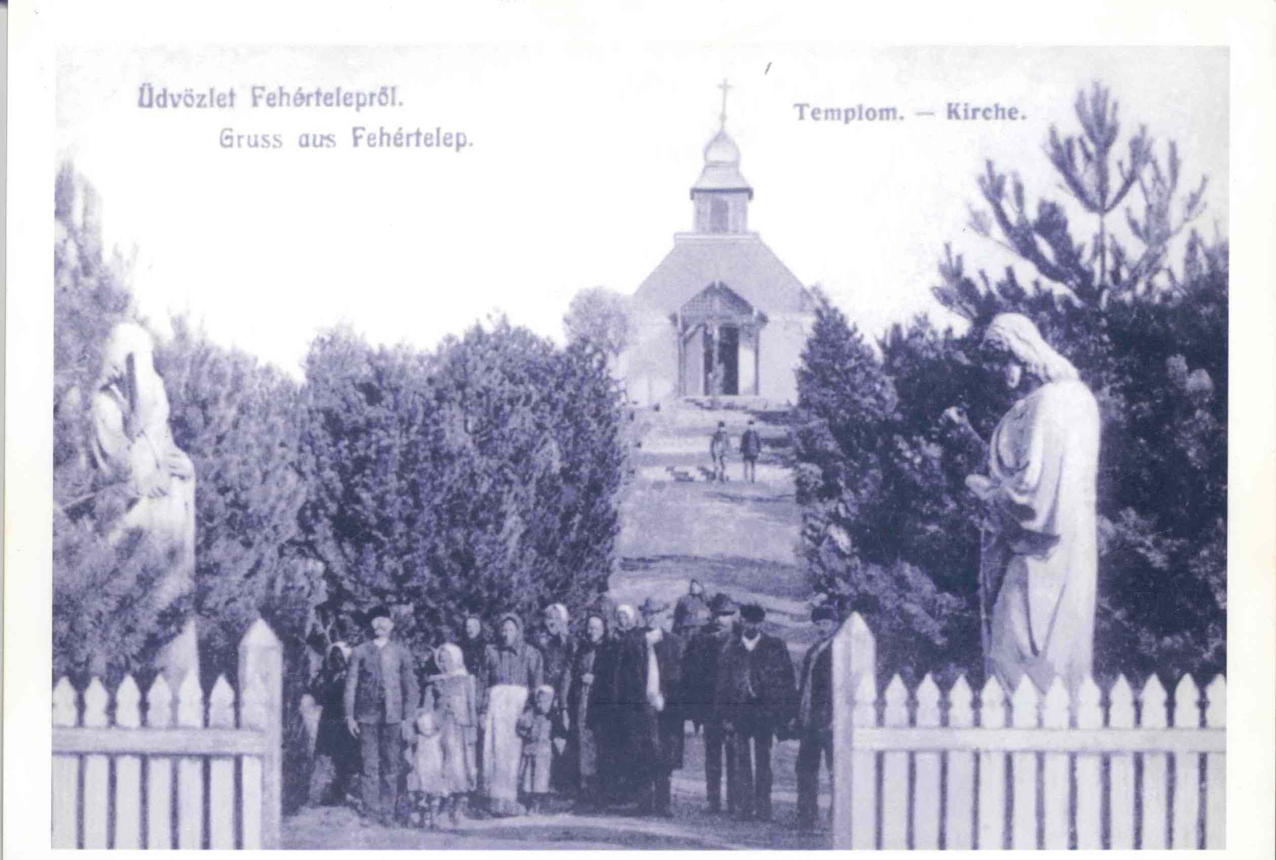 Jesus_in_the_House